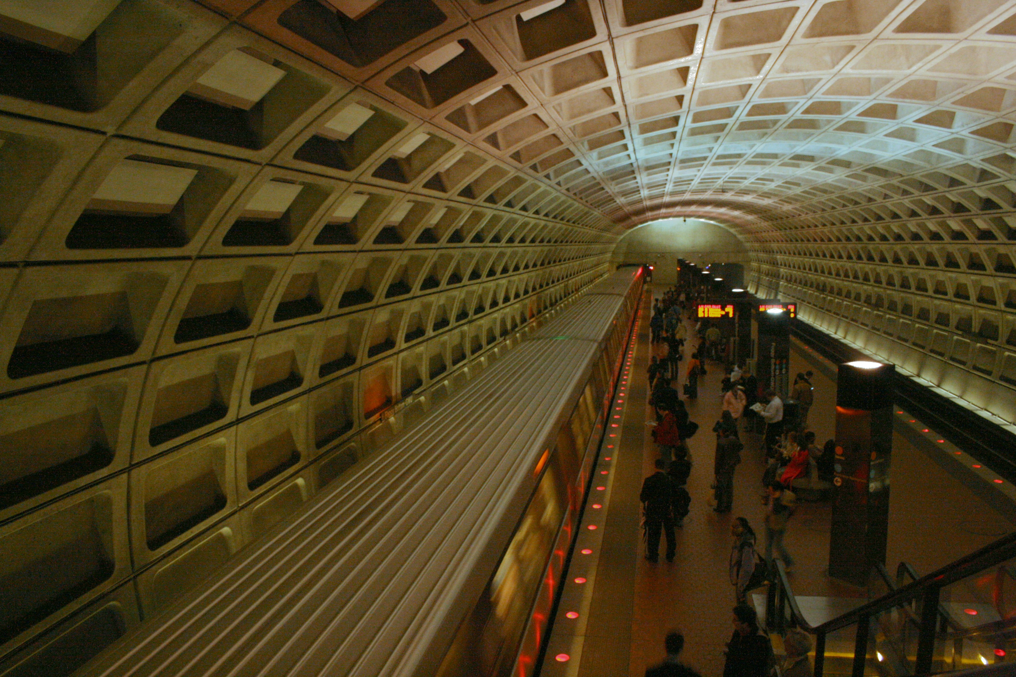 Foggy Bottom station platform from the mezzanine.